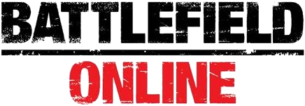 Logo for Battlefield Online